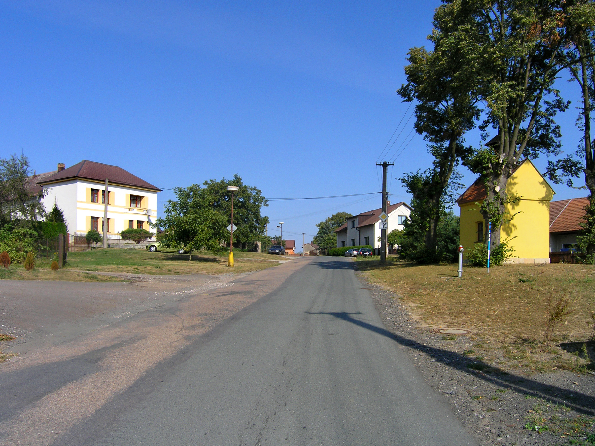 Villa in Hvozdnice, Czech Republic